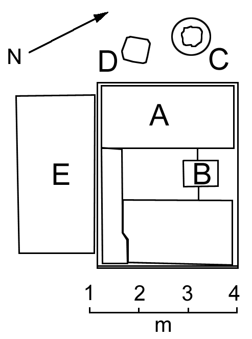 Map of the sacred area of Lapis Niger, in Roman Forum in Rome. A is the "U" shaped altar, B little stone on the altar, C round base, maybe a column witha statue on, D is the stone with inscription, E is the platform in front of the altar